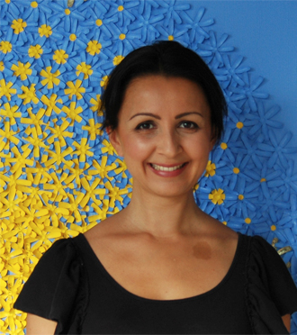 Ida in her Manhattan studio with The Birth of an Idea LXV (number 65)